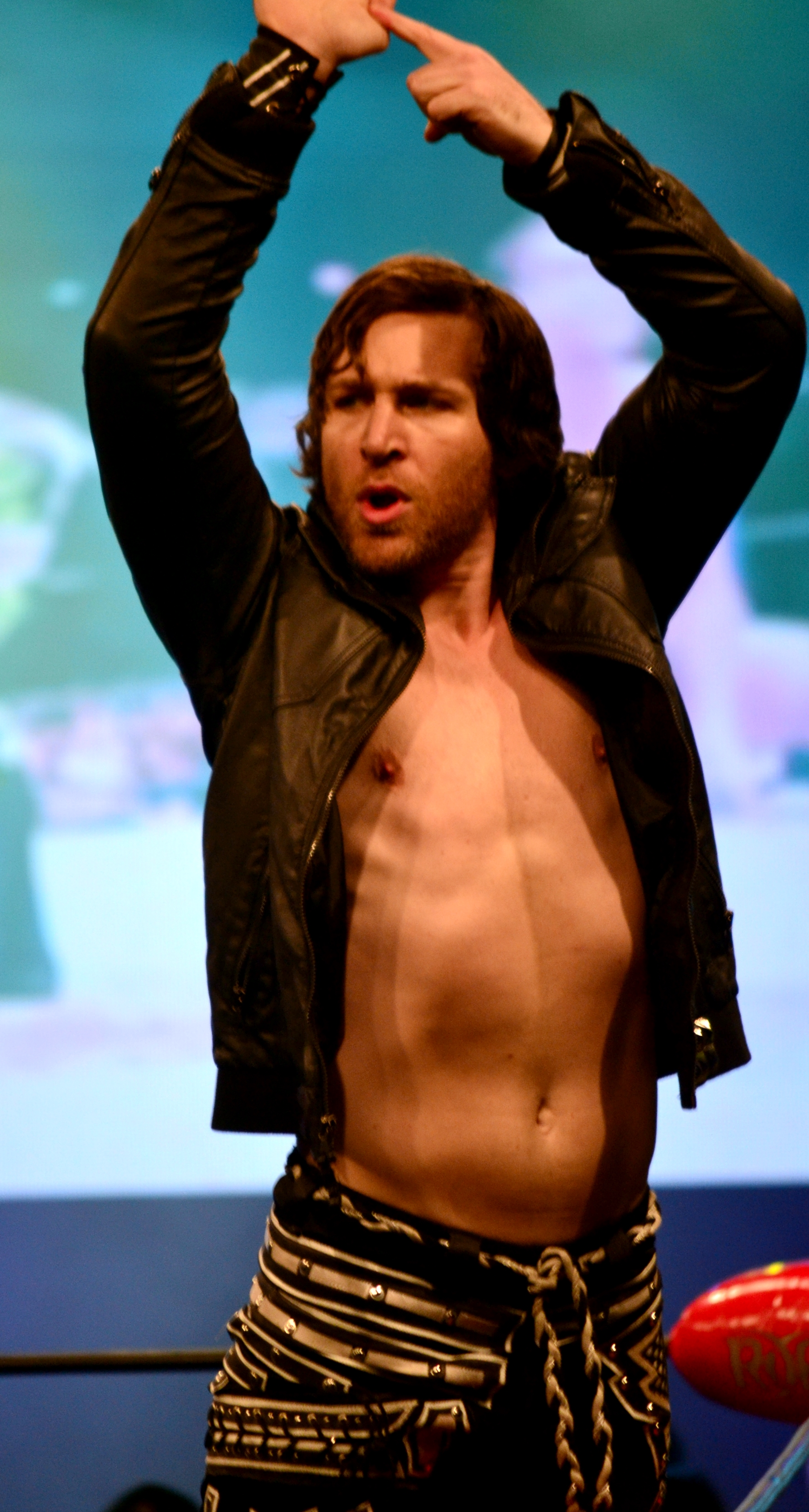 Chris Sabin at an ROH taping on February 27, 2016.